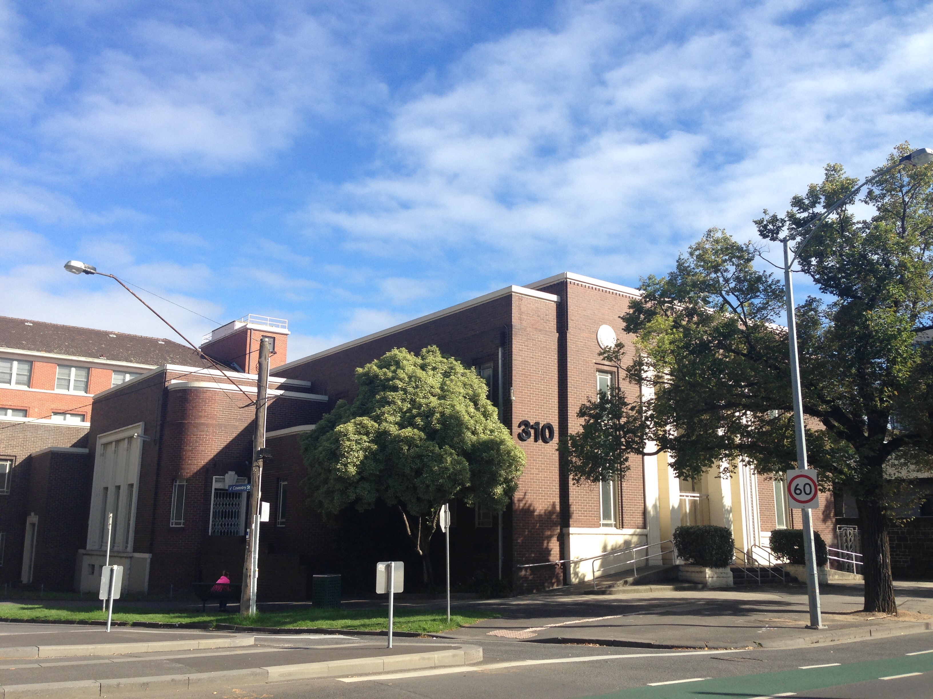 The former Repatriation Commission Outpatient Clinic at 310 St Kilda Rd.